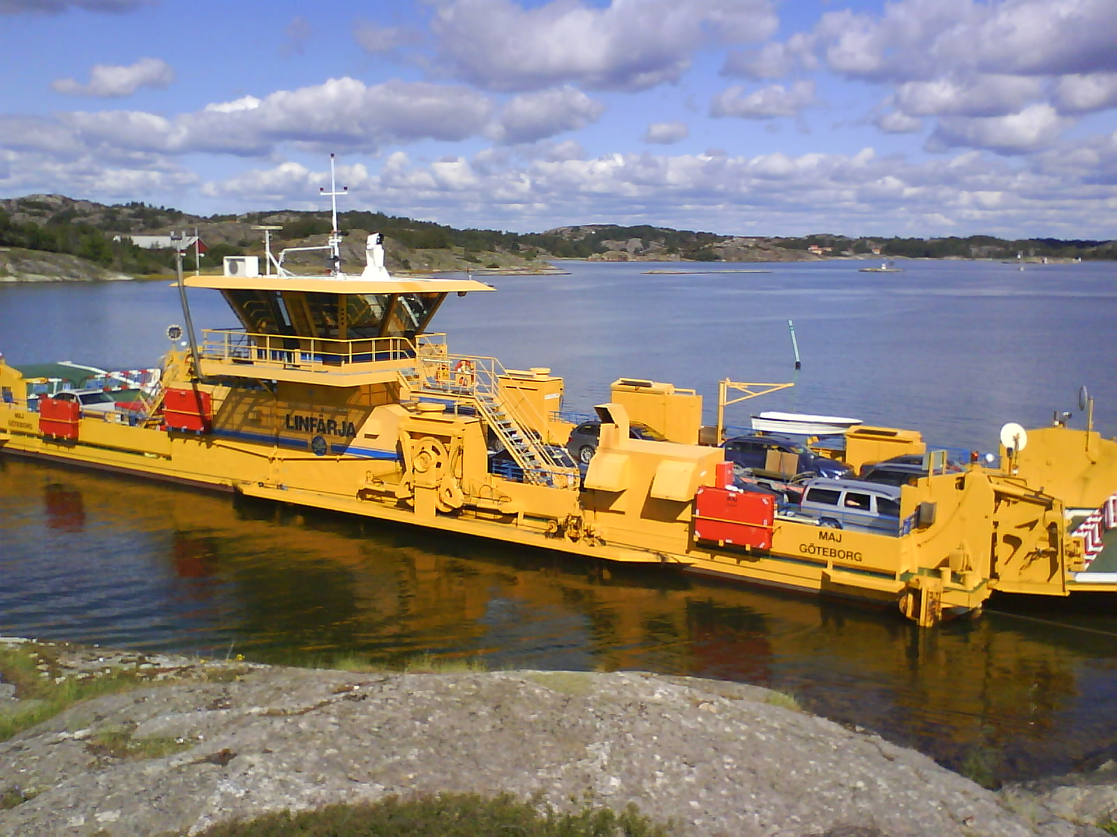 Car ferry Maj